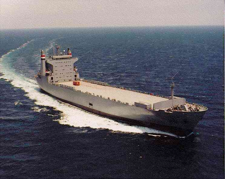 Starboard side view at sea MV Cape Taylor (T-AKR-113).